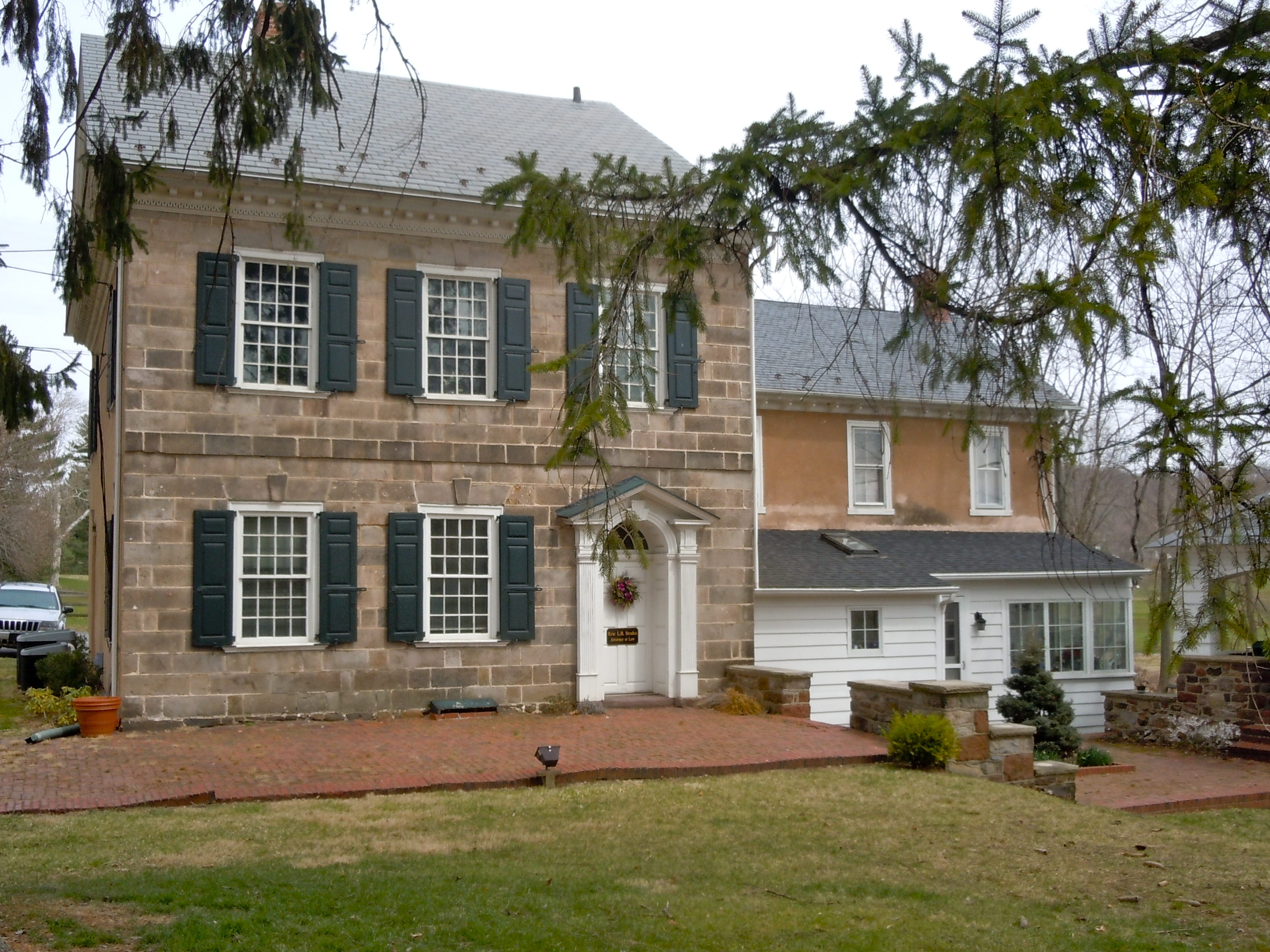 John Bishop House on the NRHP since June 27, 1985At US 422 (Perkiomen Avenue) east of Reading at the entrance to the golf course, in Exeter Township, Berks County, Pennsylvania. Now a lawyer's office.